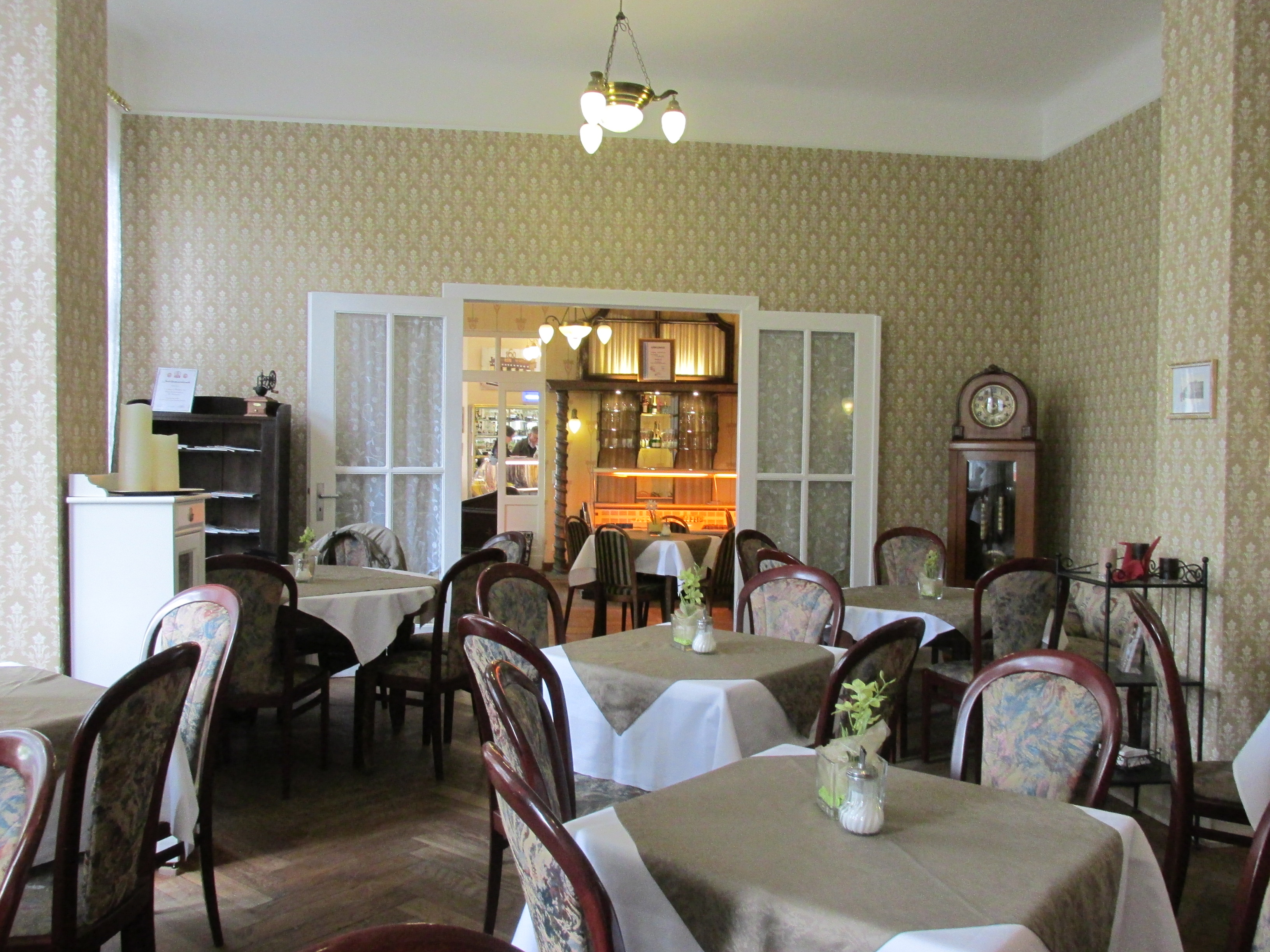 Dining room at Konditorei Buchwald cake shop and cafe in Tiergarten, Berlin, Germany.